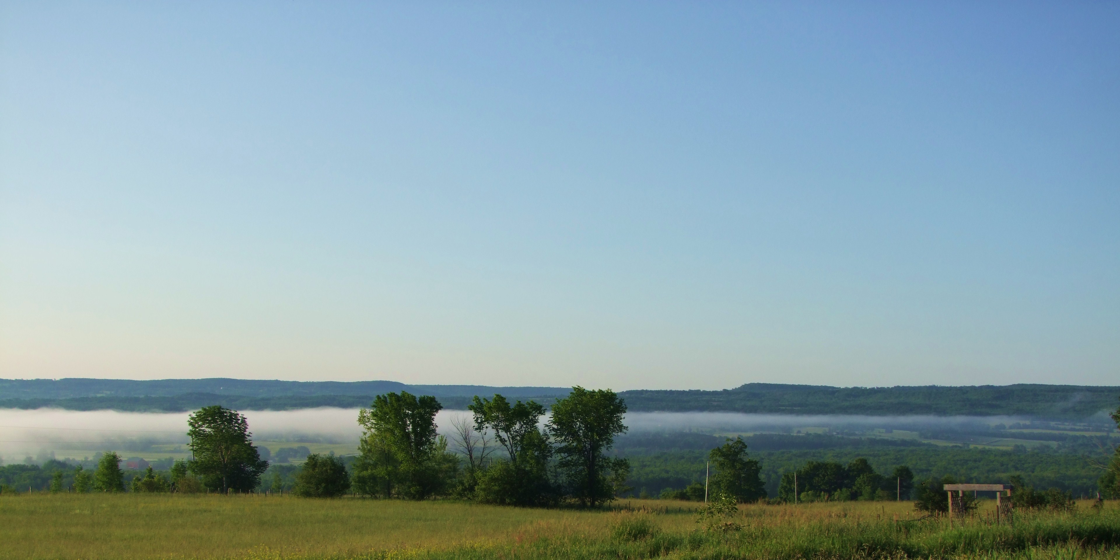 beaver valley (ontario) at dawn